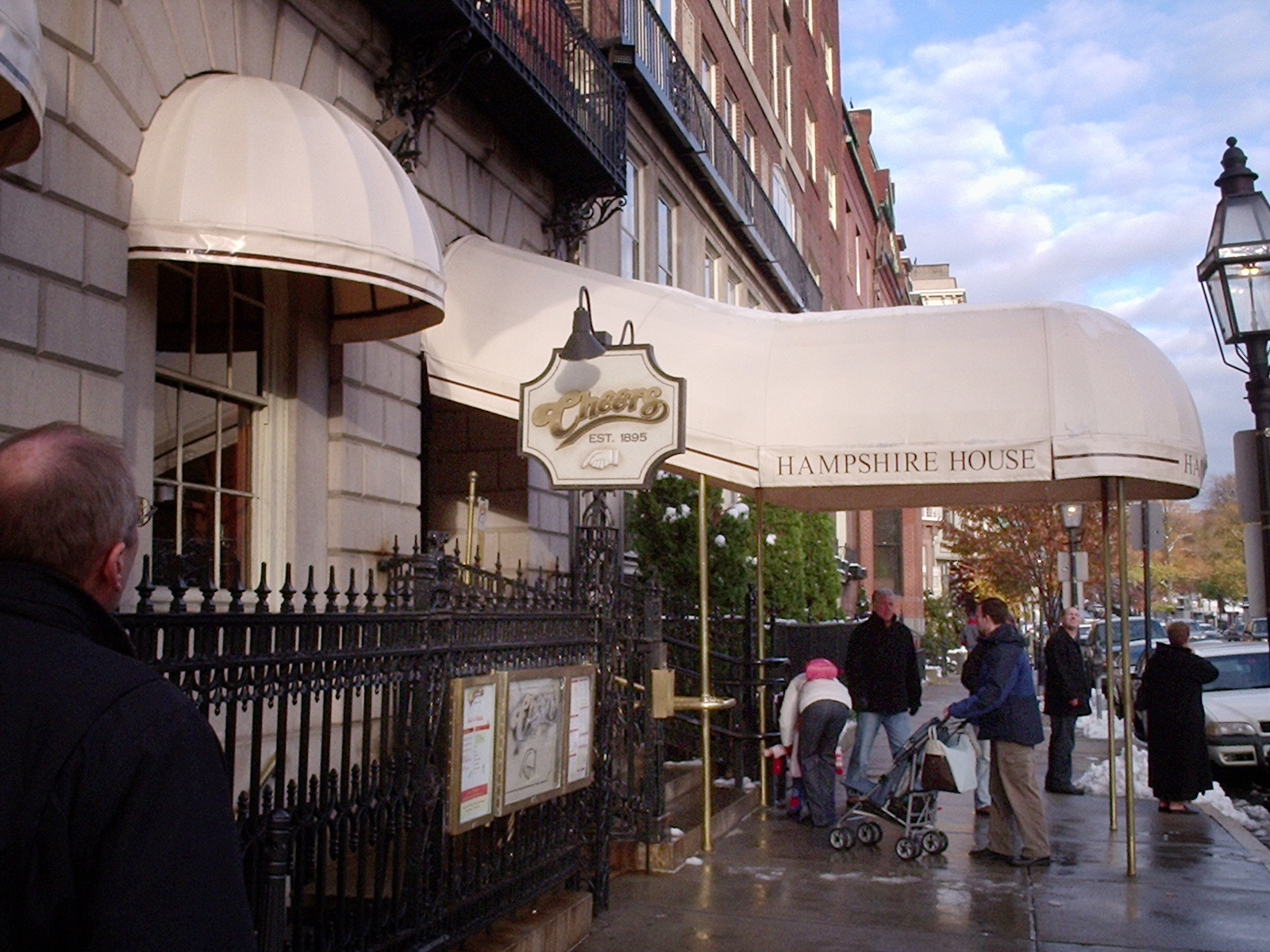 Close up of Cheers Beacon Hill - Boston, MA (Bull and Finch)